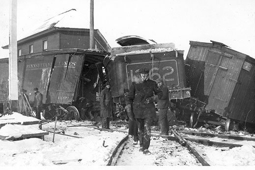 The Ottawa, Arnprior and Parry Sound Railway crossed the Brockville and Ottawa Railway (Canadian Pacific Railway) line just west of Renfrew, Ontario at the diamond crossing seen in this image. The site of fights between the two companies during construction, the junction was the site of more than one collision during its lifetime. This image was reported in the Ottawa Evening Journal on 10 December 1906, reporting on an event that occurred on the 8th. The paper read: There was a collision at Renfrew Saturday evening between two freight trains, one belonging to the Canadian Pacific Railway and the other to the Grand Trunk. No one was hurt and the only damage consisted in the smashing of two C.P.R. freight cars and the derailing of the G.T.R. engine. The smashup delayed traffic on the G.T.R for some hours. The C.P.R. freight was on the diamond at Renfrew and the G.T.R. train was going east. Previous to the collision the C.P.R. train was divided but when the smash came was all coupled together. The cars struck by the engine were all loaded with cement.